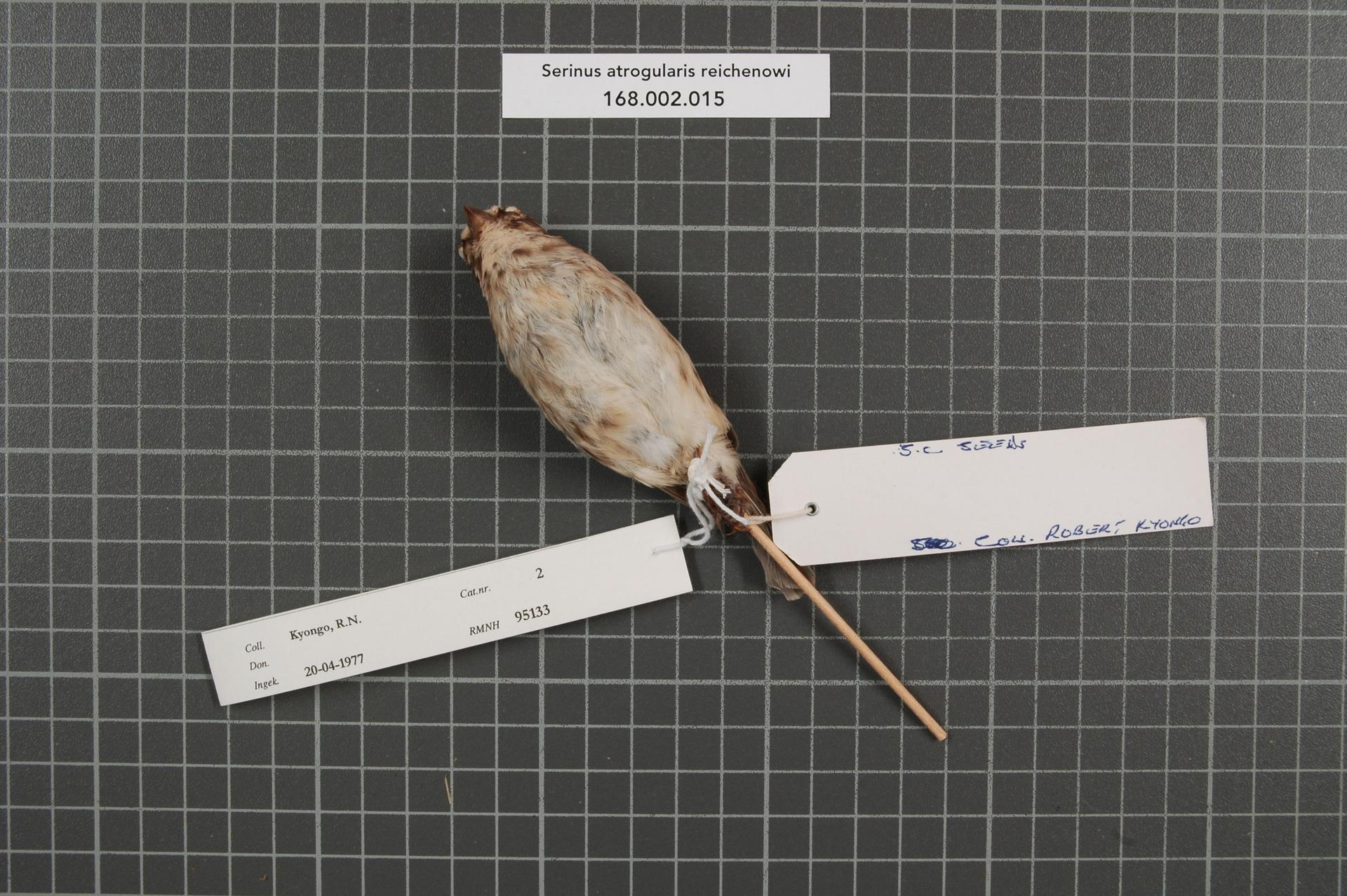 Serinus atrogularis reichenowi Salvadori, 1888